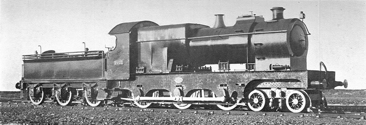 Dean's Ten-wheeled Goods Engine, Great Western Railway Special features are the large belpaire firebox, "saddle" type sand box, and the arrangement of the coiled springs to the driving wheels. "Kruger" class